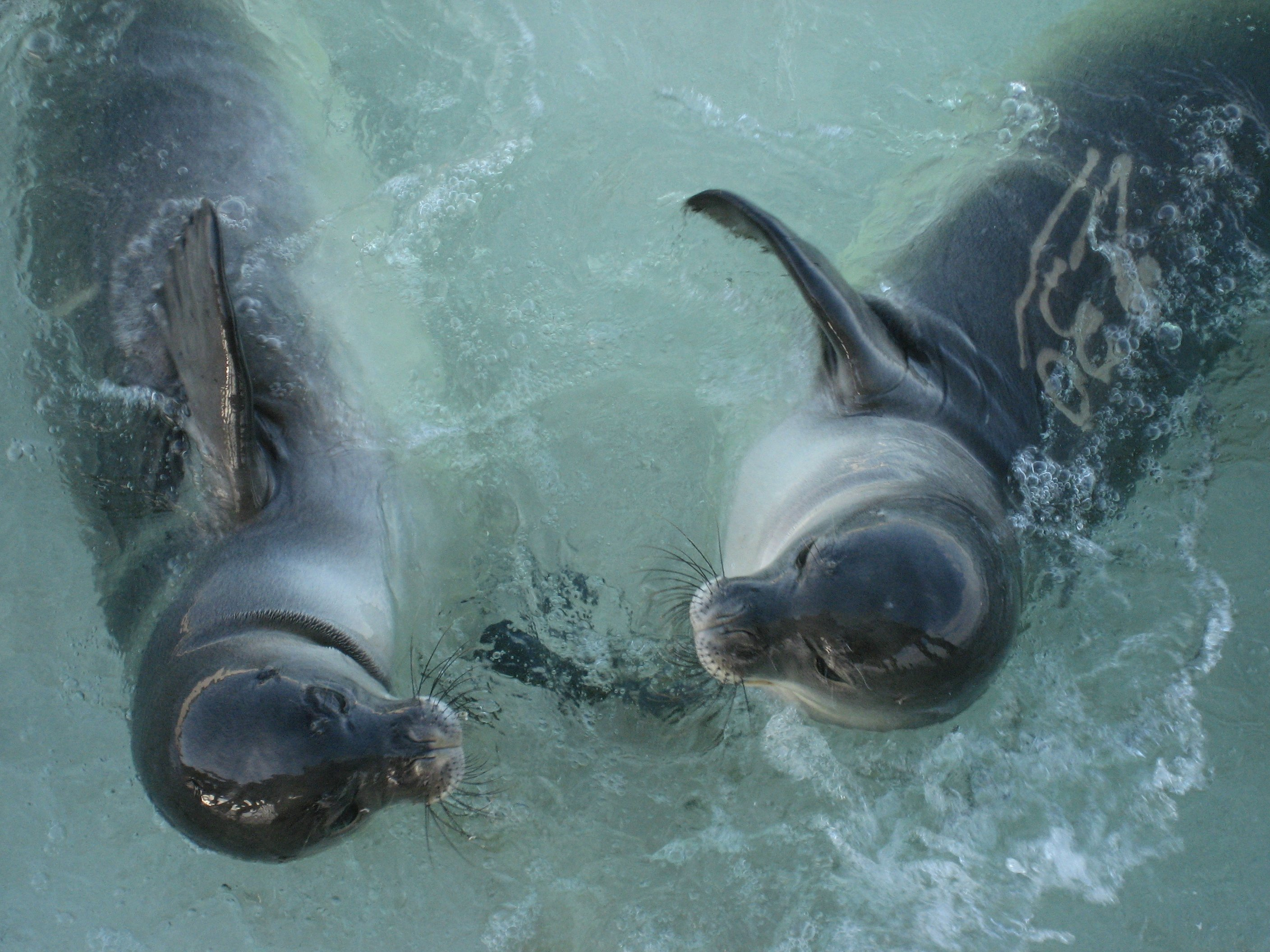 Monk seals. Hawaii, Papahanaumokuakea Marine National Monument.